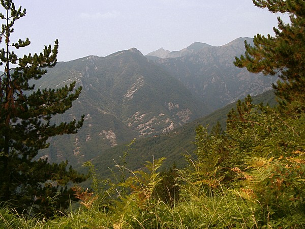 Alpi Liguri Picture taken and edited by user Idefix juli 2003